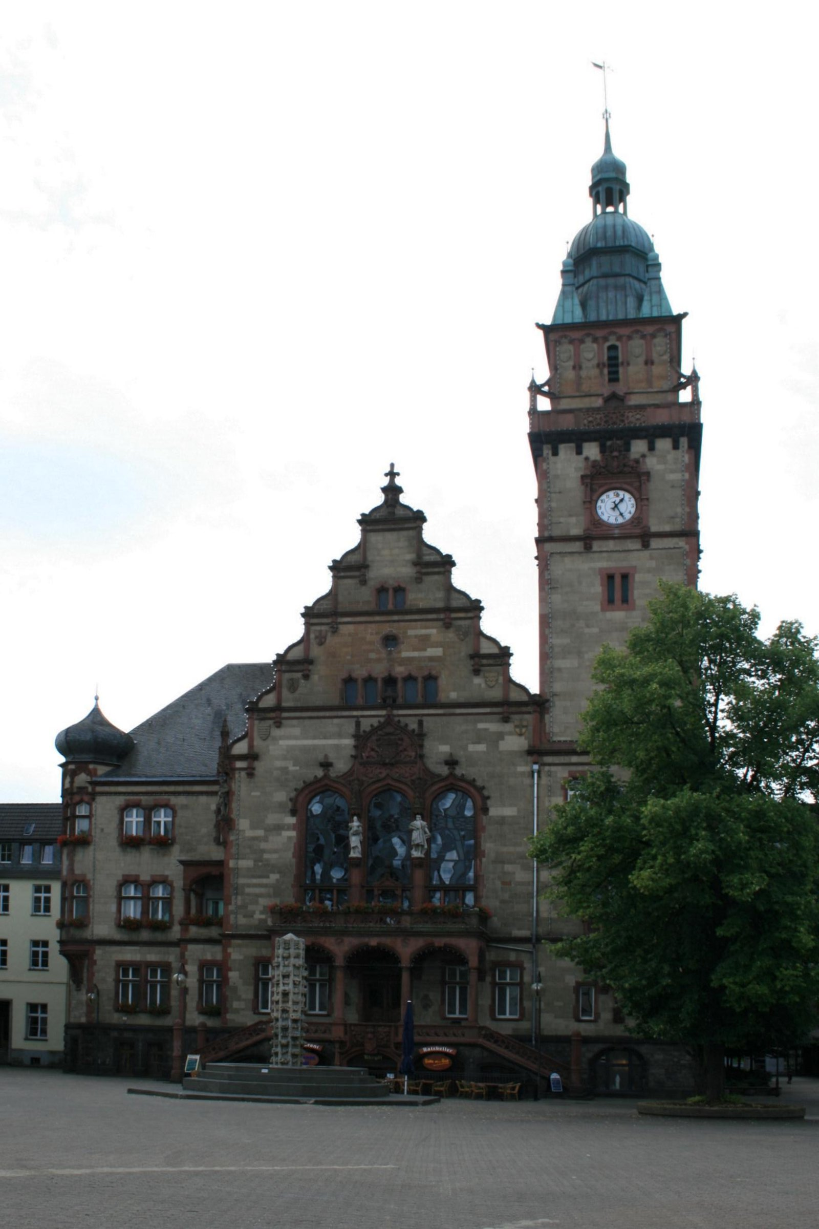 Cultural heritage monument No. M 013 (1) in Mönchengladbach